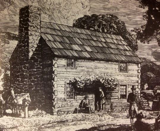 Historical Records - University Archives @ Pitt - LibGuides at University of Pittsburgh, url =